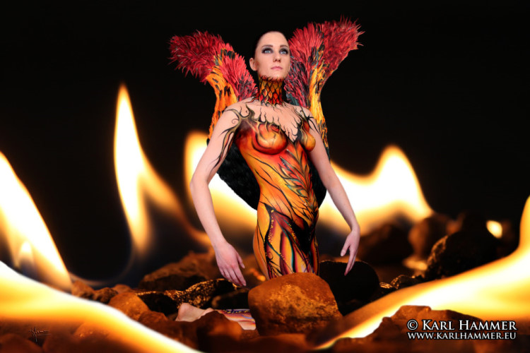 Phonix Rising, an art collaboration between photographer Karl Hammer and bodypaint artist Syl Verberk.